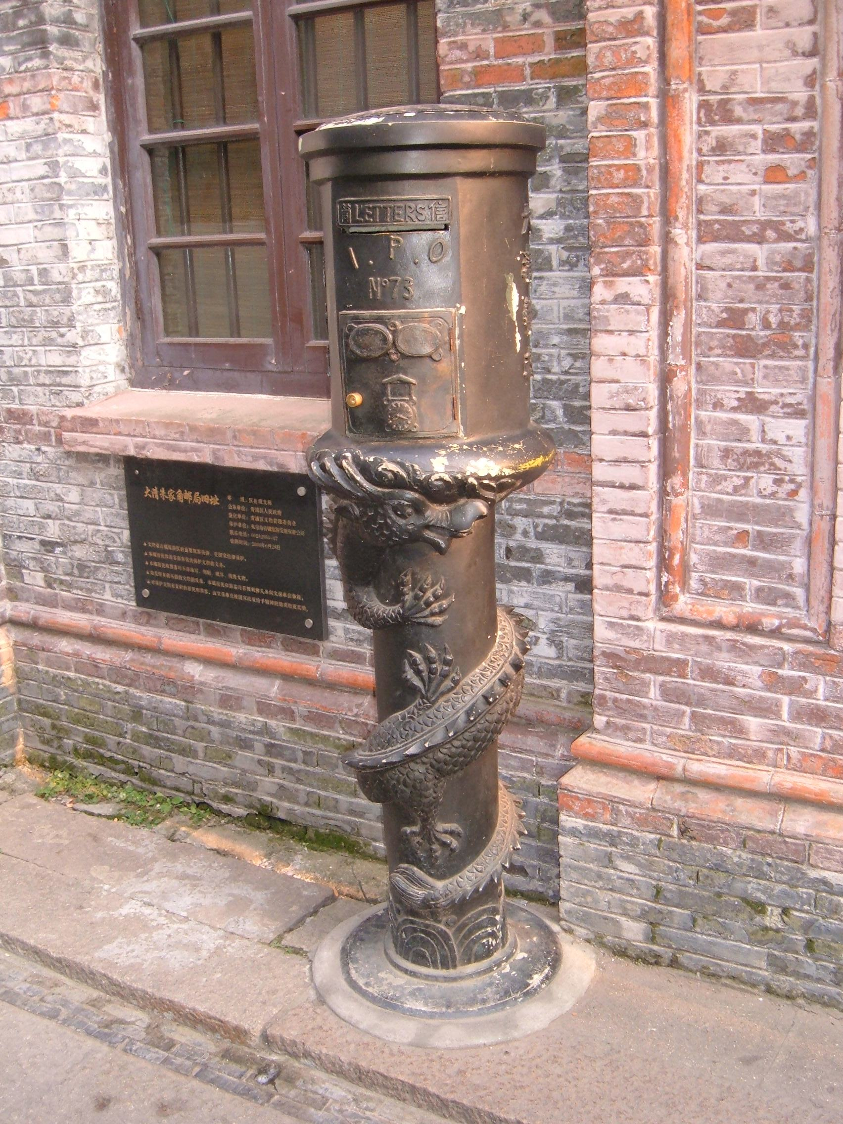 Mail box located outside the Great Qing Post Office in Zhujiajiao, PRC.